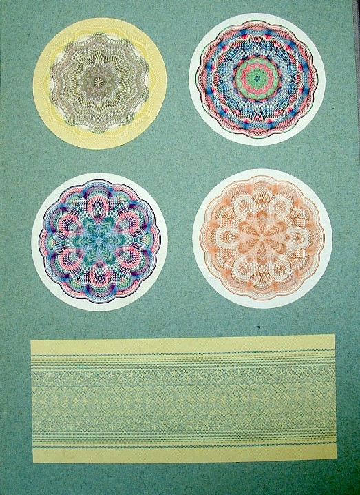 Illustration of Orlov printing - from TIPOGRAFSKAYA PECHAT' ORLOVA ("Orlov's Typographical Printing"). Album. St. Petersburg, 1890's.